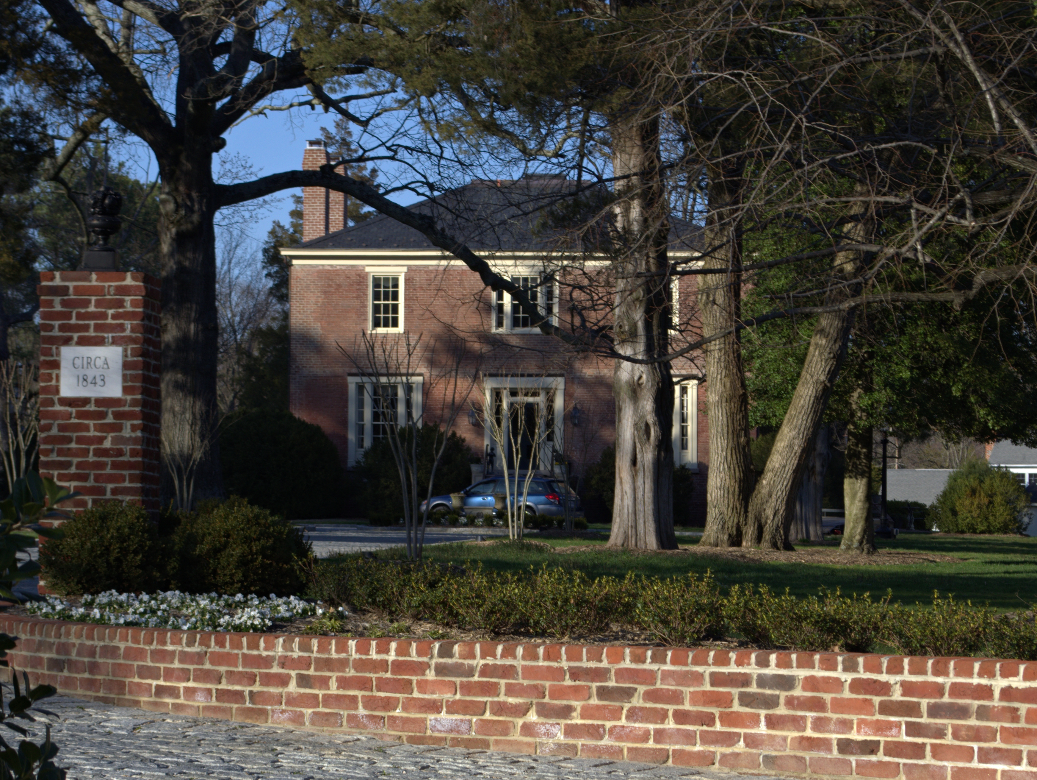 Huntley is a late Federal residential style building in Richmond, Virginia. The main part of the house was built around 1843 for Benjamin W. Green, a local businessman and alleged bank robber.